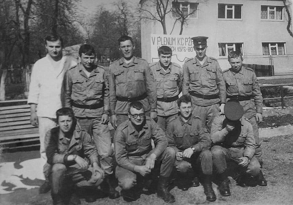 WOP post in Gościce